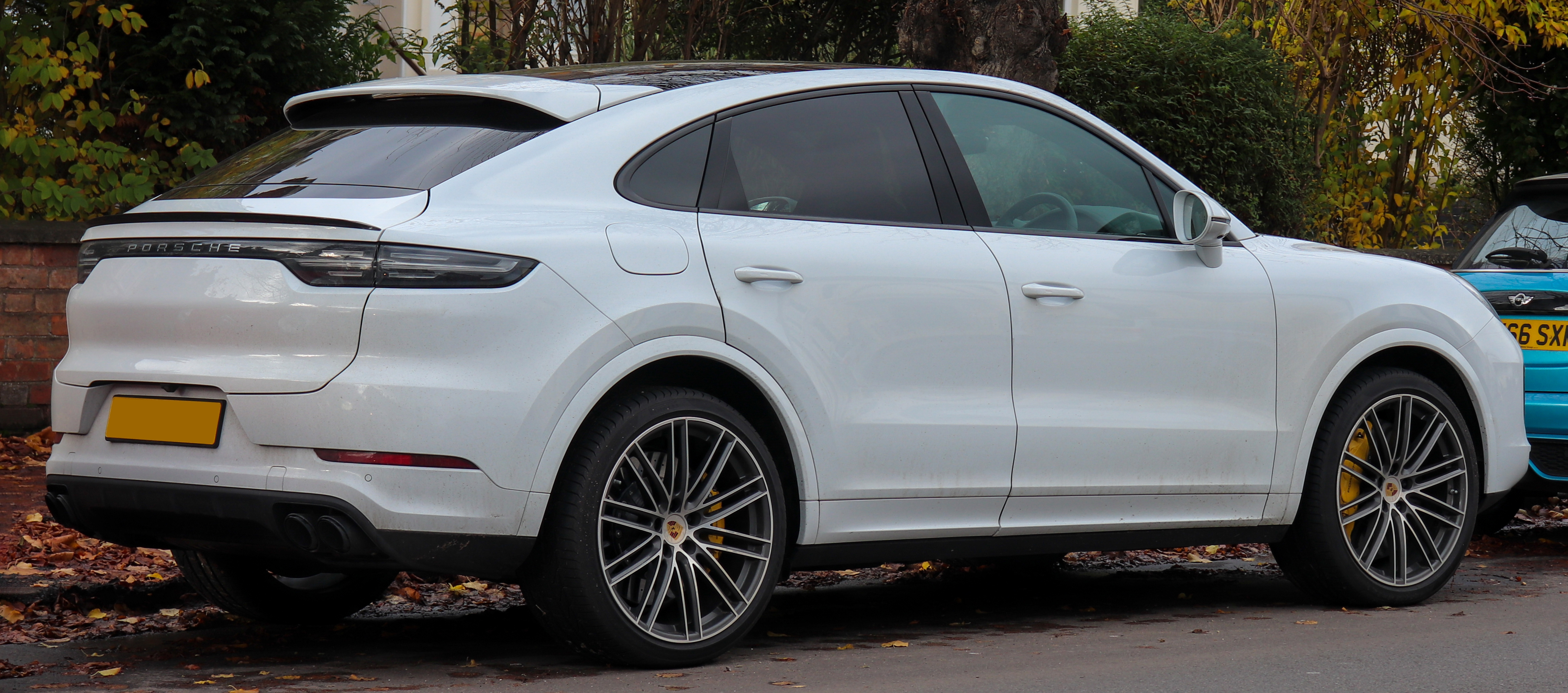 2019 Porsche Cayenne V8 Turbo Automatic Coupe 4.0 Rear Taken in Leamington Spa